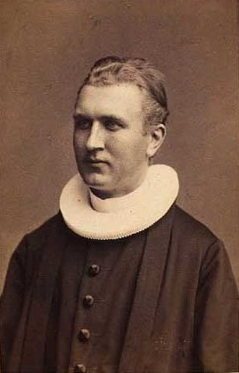 Edvard Blaumüller, Danish writer and theologian. 1851-1911.